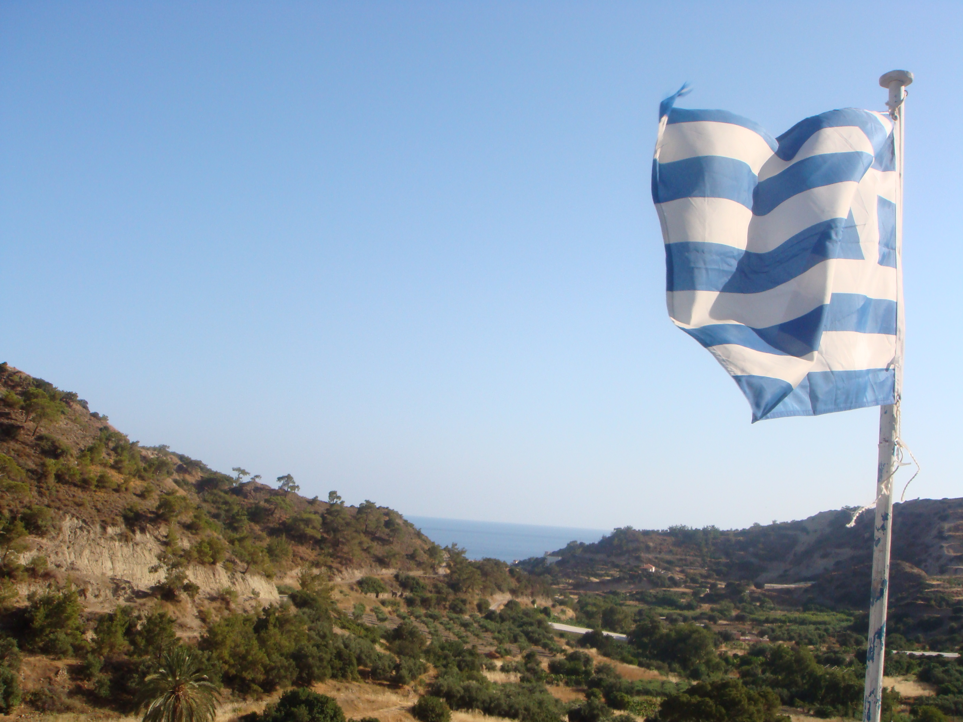 The Greek flag, from the Monastery of Agios Antonios in Arvi, Iraklion Prefecture.